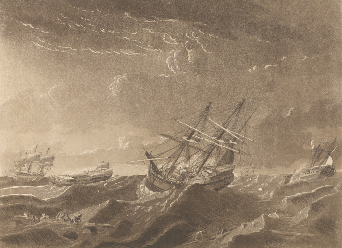 Plate IV. A View of the Sea on the Morning after the Storm, with the distressed situation of the Centaur, Ville de Paris and the Glorieux as seen from the Lady Juliana, the Ville de Paris passing to Windward under close reef'd Topsails Print Plate IV. A View of the Sea on the Morning after the Storm, with the distressed situation of the Centaur, Ville de Paris and the Glorieux as seen from the Lady Juliana, the Ville de Paris passing to Windward under close reef'd Topsails